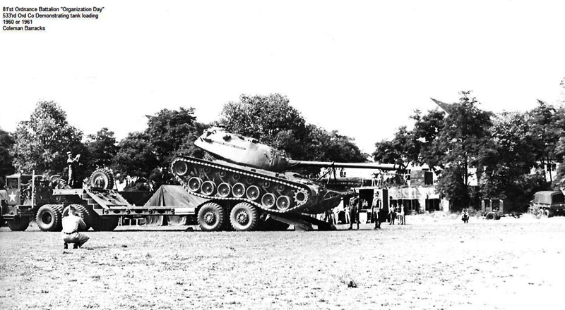 533rd Ordnance Company demonstrates tank loading at the 81st Ord Bn Organization Day ceremonies held at Coleman Barracks in 1960 or '61. The tank is a 65 ton M103 Heavy Tank.